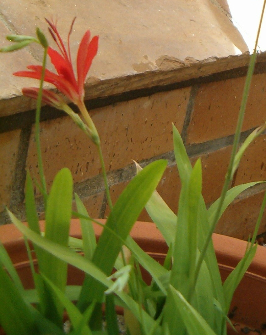 At Kirstenbosch National Botanical Gardens Genus Freesia